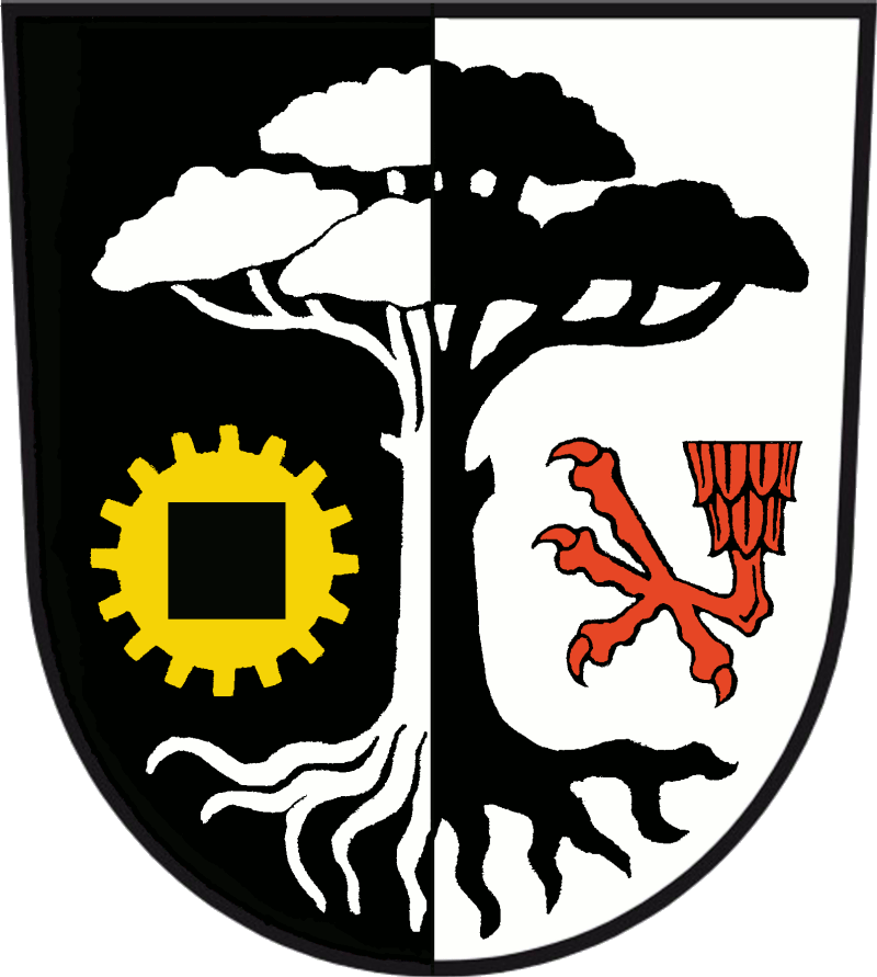 Coat of arms of Ludwigsfelde